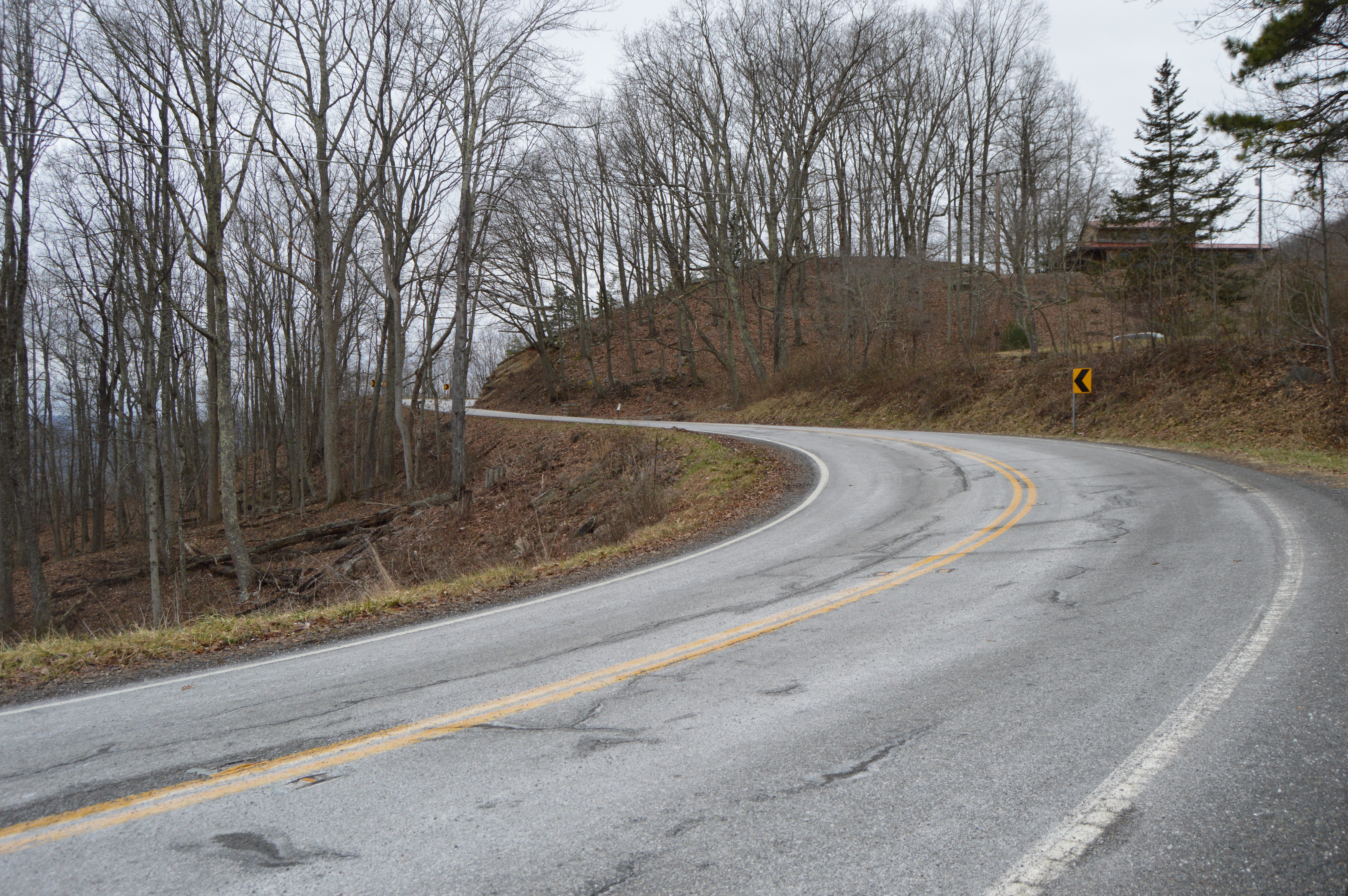 Curves on State Route 598 as it climbs East River Mountain, just east of Bluefield, West Virginia in Bland County, Virginia, United States.